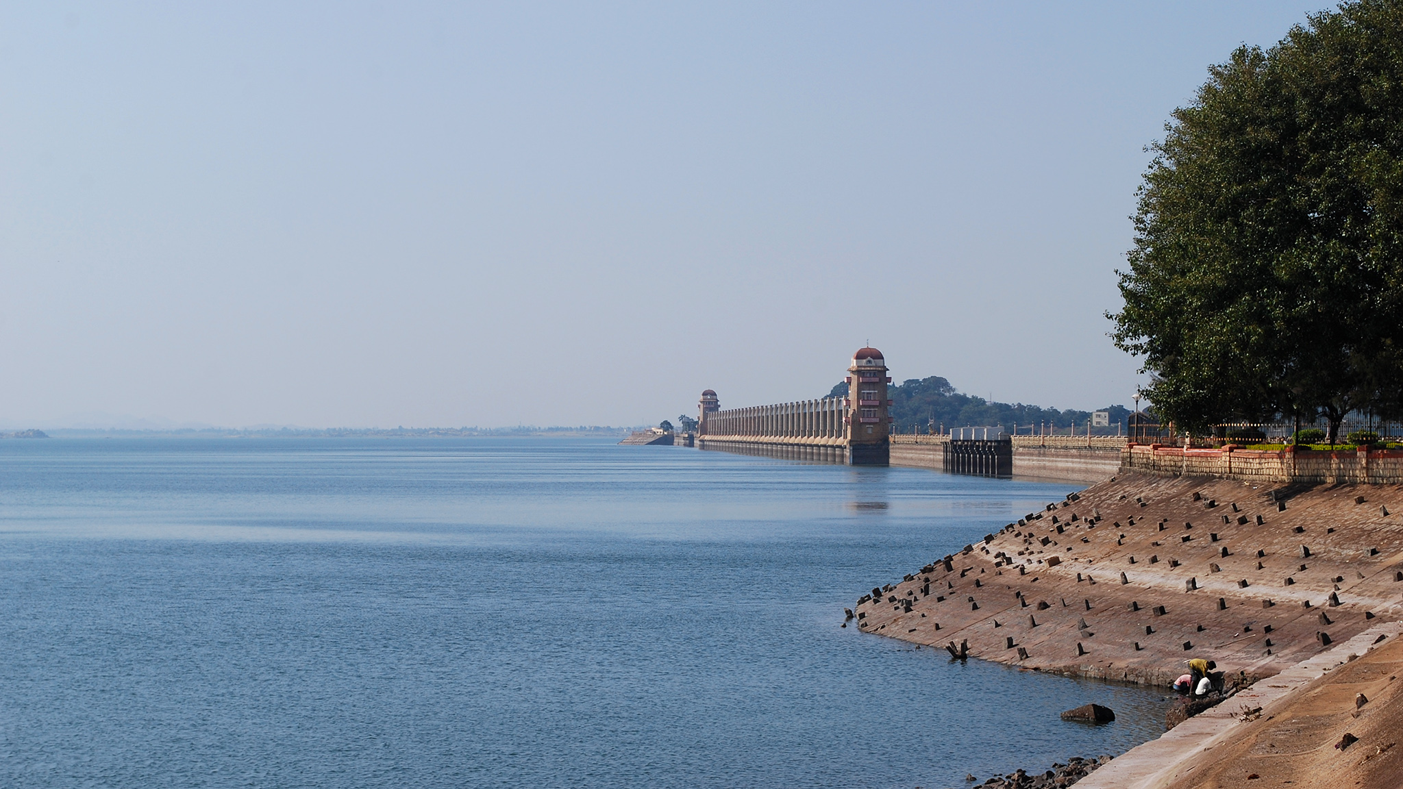 Tungabhadra Dam near the town of Hospet in Karnataka